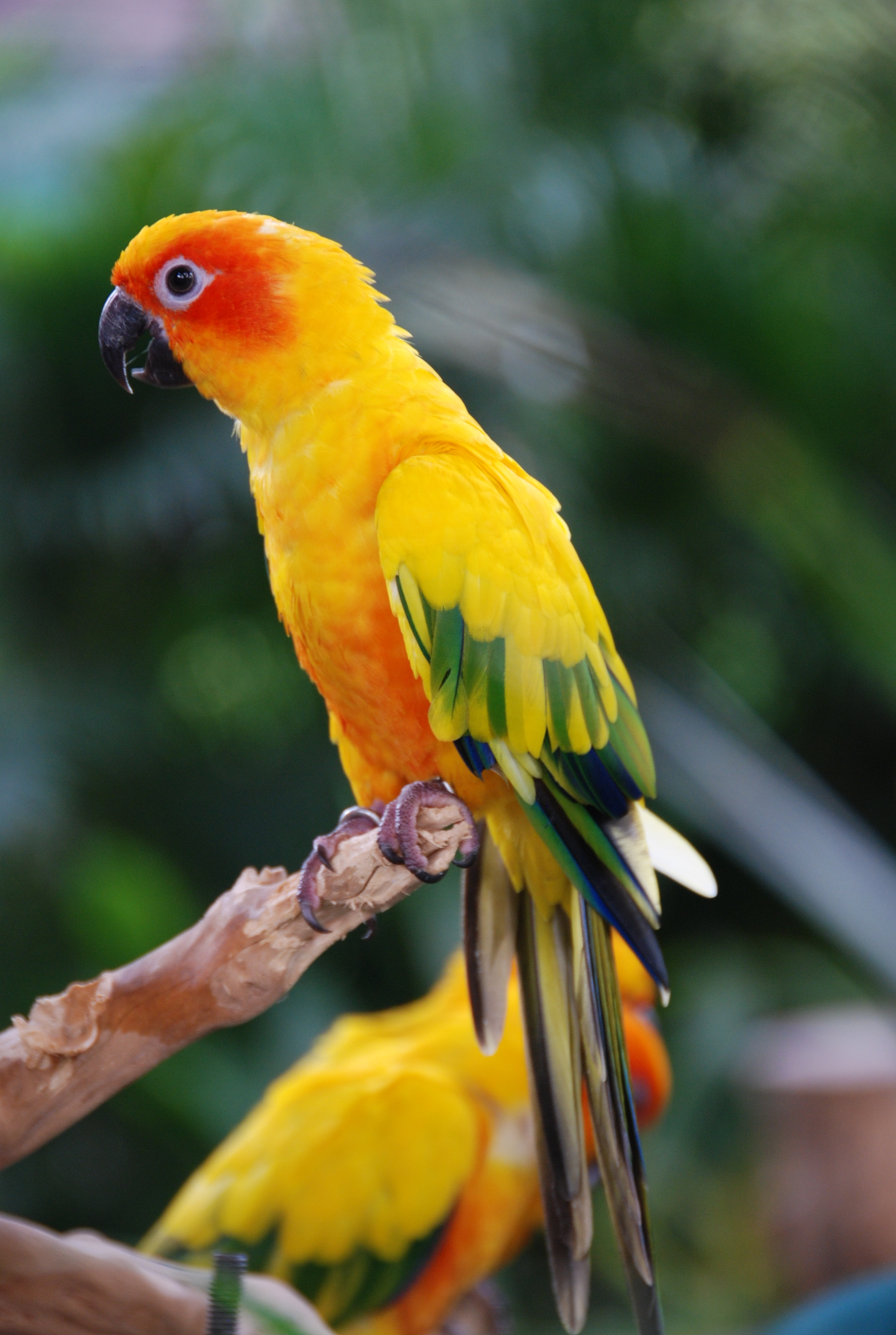 Sun Conure or Sun Parakeet (Aratinga solstitialis) at a bird park in Singapore.